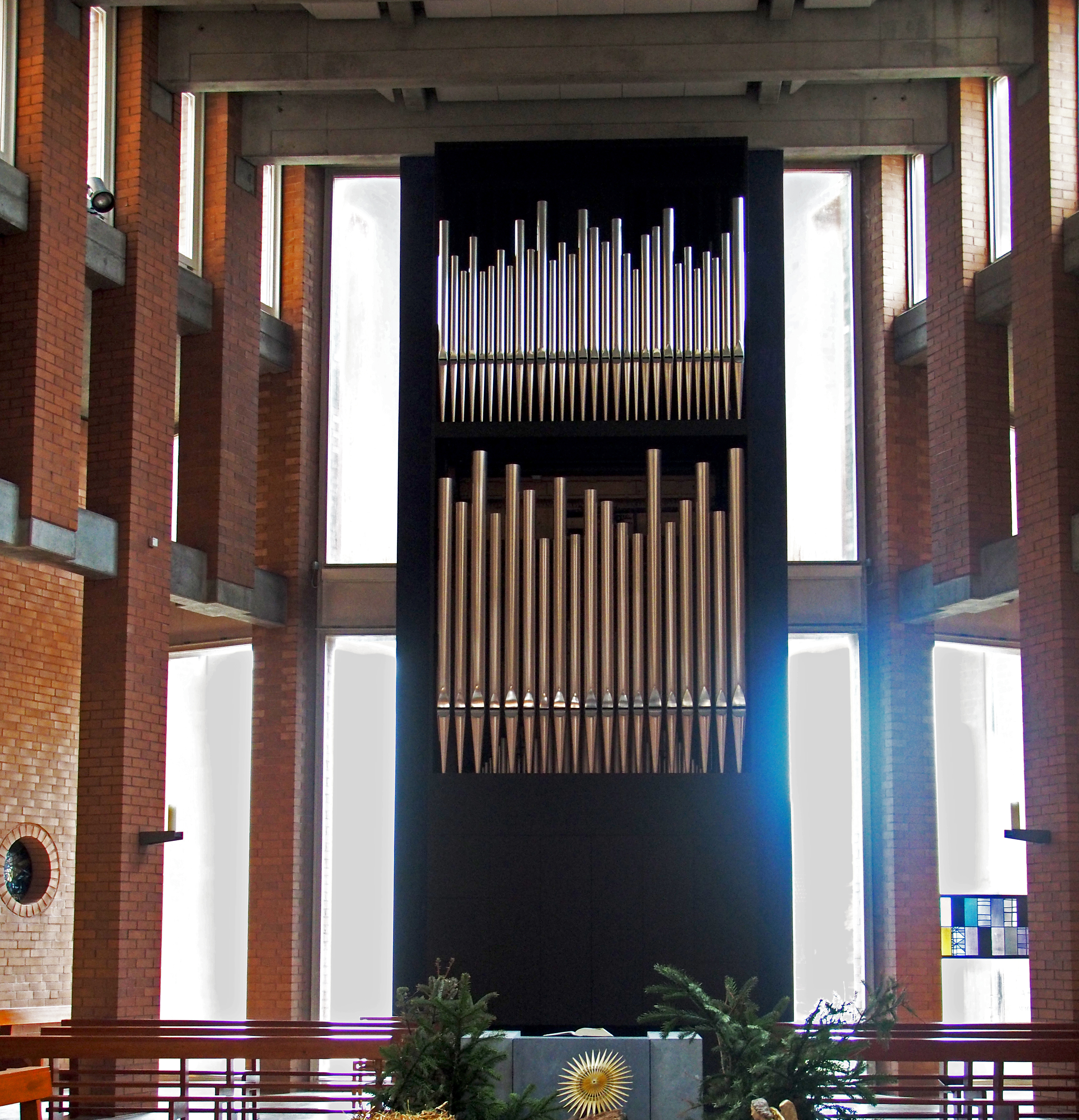 St. Christophers Church Westerland, Germany: church, organ